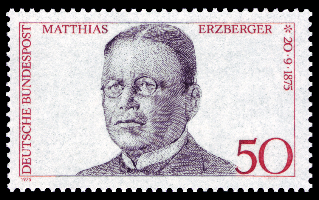 100th day of birth of Matthias Erzberger (1875–1921) Ausgabepreis: 50 Pfennig First Day of Issue / Erstausgabetag: 14. August 1975 Michel-Katalog-Nr: 865